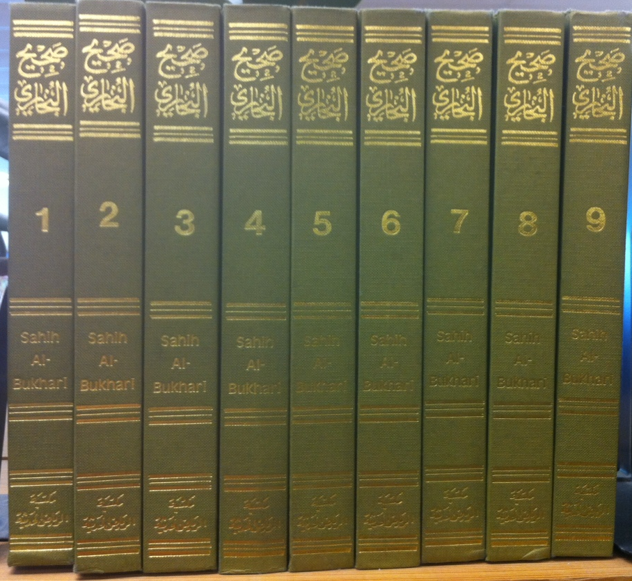 Sahih Al-Bukhari in English, view of the spines of the 9 volume set